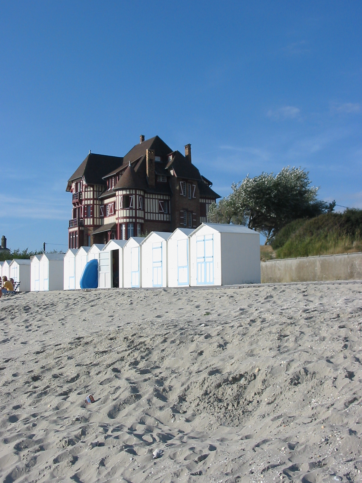 Beach houses, Le Crotoy